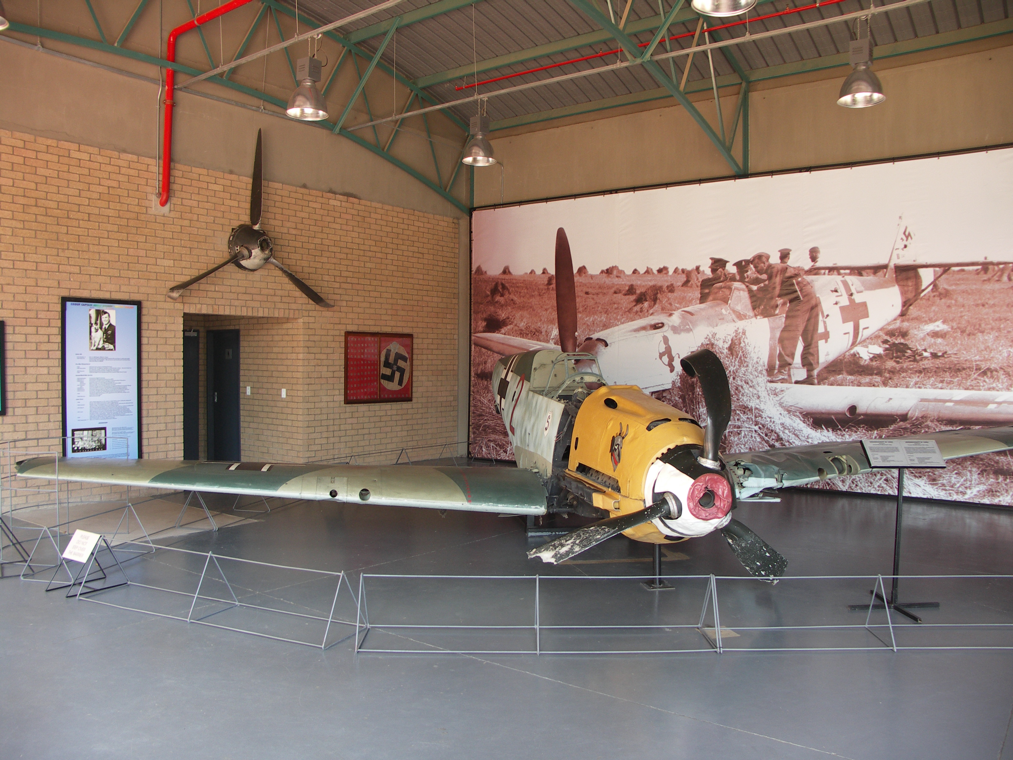 Messerschmitte Bf 109E-3 1289, ex-SH + FA, ex-2/JG 26 (Schlageter) "Red 2" South African Museum of Military History, Johannesburg, South Africa